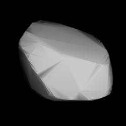 3D convex shape model of 333 Badenia, computed using light curve inversion techniques. J. Hanuš, J. Ďurech, M. Brož, B. D. Warner (June 2011). "A study of asteroid pole-latitude distribution based on an extended set of shape models derived by the lightcurve inversion method". Astronomy and Astrophysics 530: A134. ISSN 0004-6361. arXiv